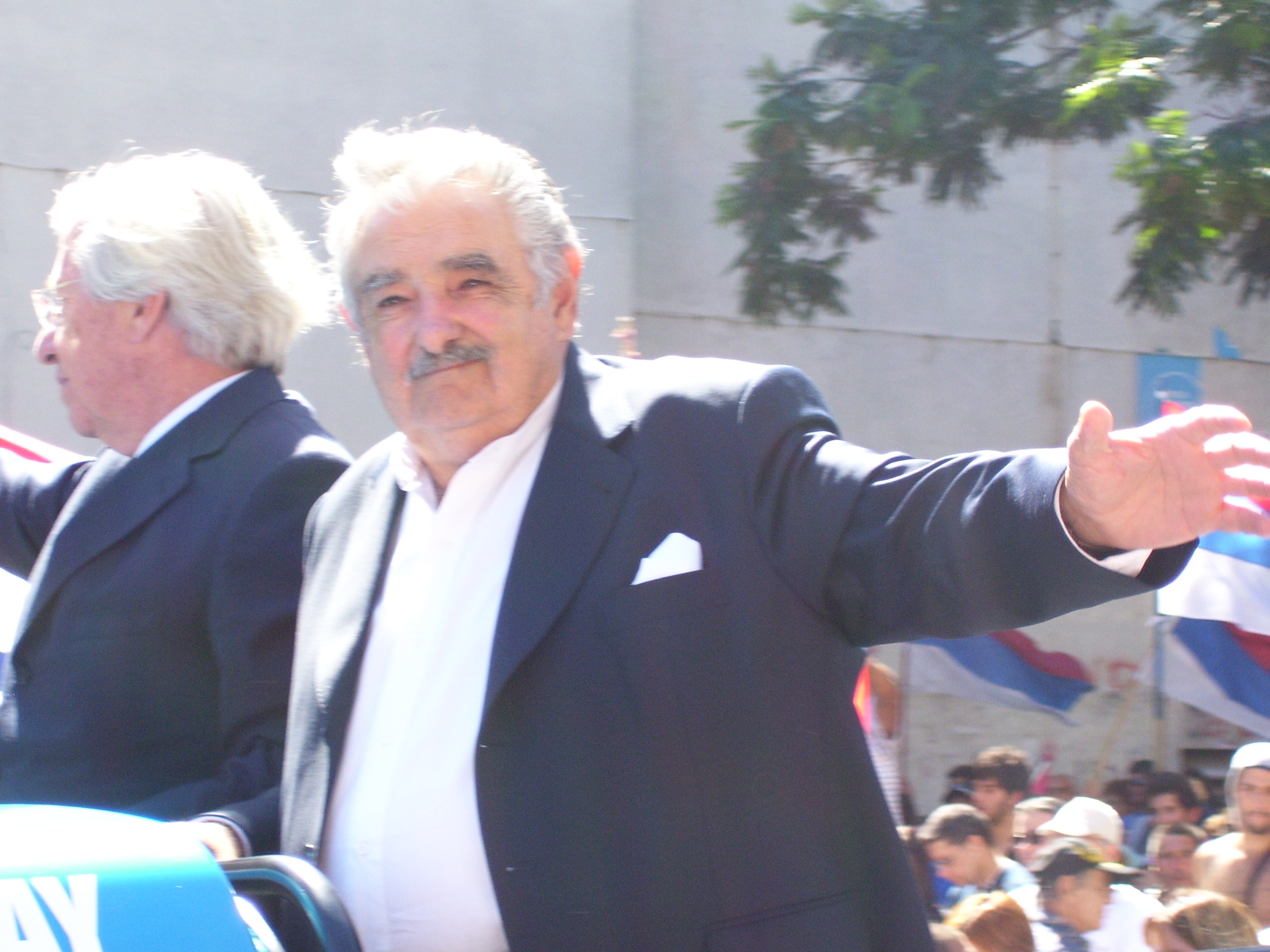 The new President of Uruguay, josé Mujica (right) and his Vice-President, Danilo Astori (left) greeting. After the ceremony in the Hall of Lost Steps of the Legislative Palace, the new President of the Oriental Republic of Uruguay, Jose Mujica, and his Vice-President Danilo Astori, climb into an electric van and went to the Independence Square to culminate acts. On the way they greeting the people met.